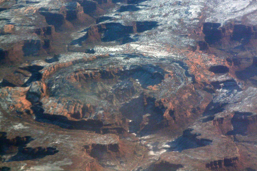 Oblique air photo of Upheaval Dome, Utah, in Canyonlands National Park facing southeast from about 30,000 ft. Color and contrast enhanced in Photoshop. Taken Jan 17, 2009.